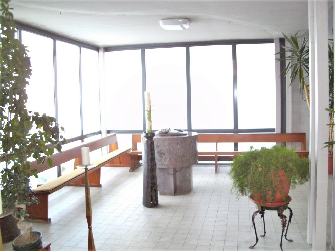 Interior of the roman catholic church in Dörsdorf, Saarland